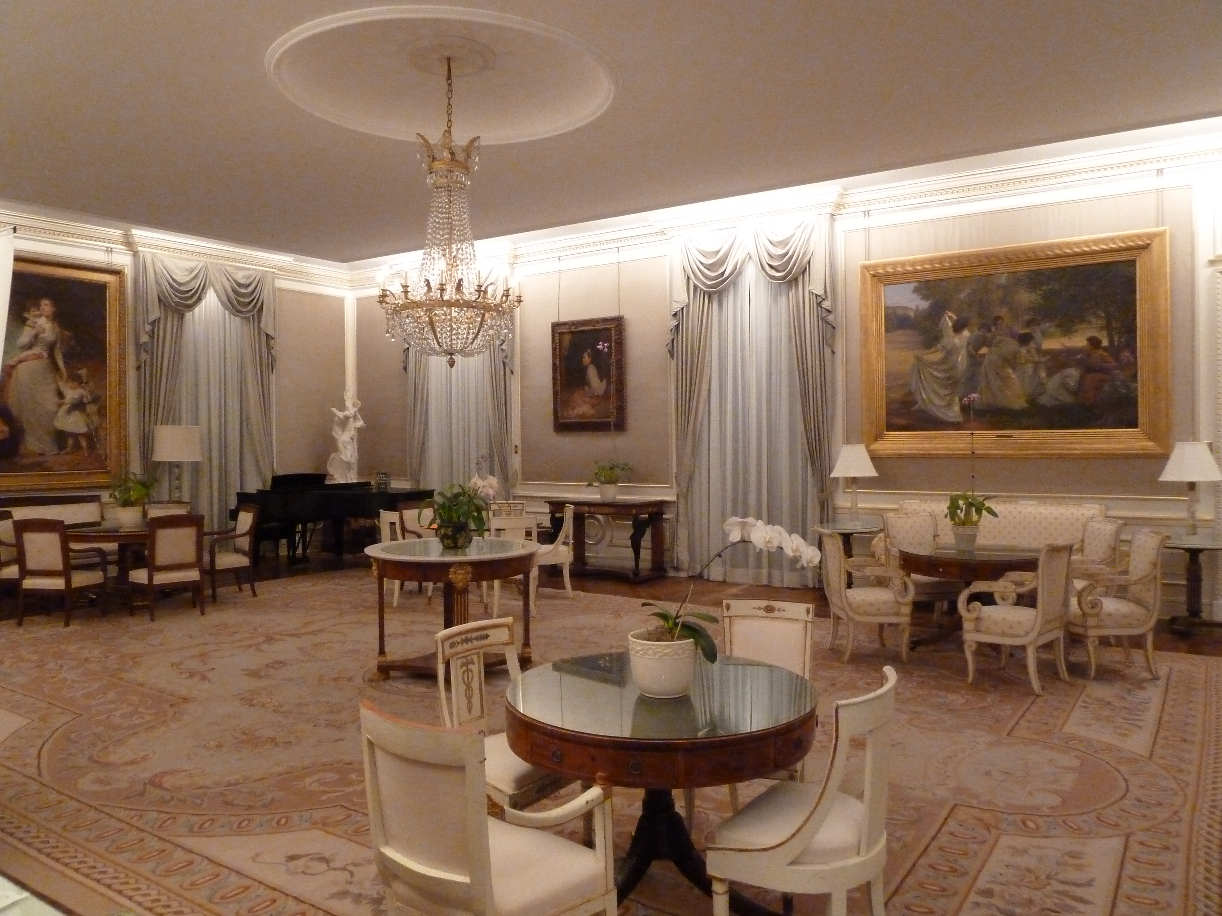 Room inside Jasna Polana